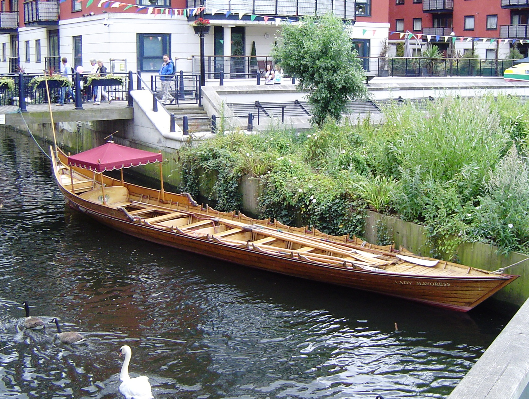 Lady Mayoress shallop on the Hogsmill at Kingston